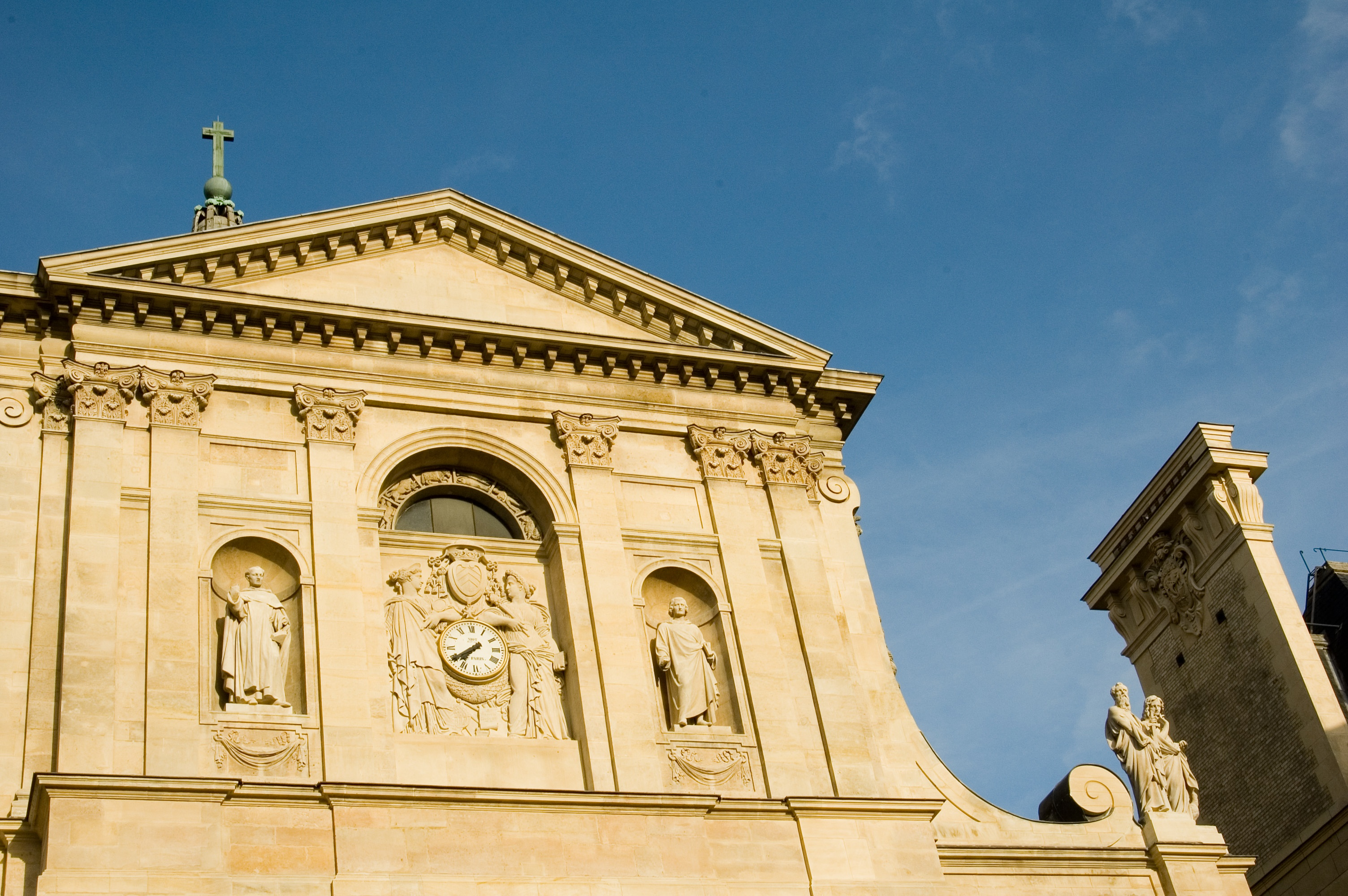 Exterior of Sorbonne edifice.